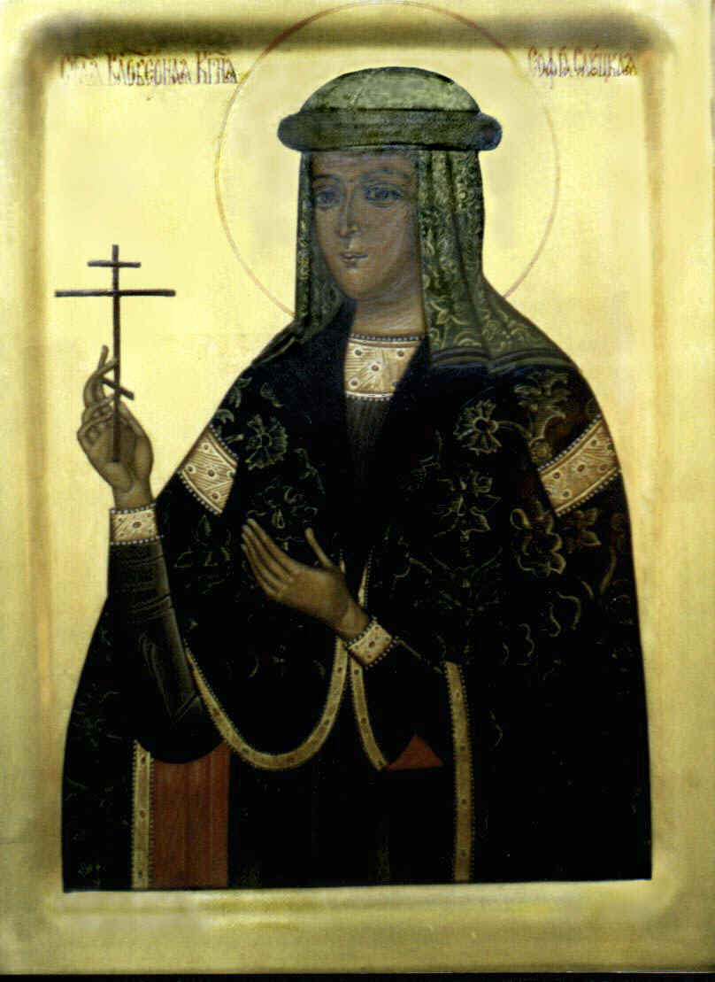 Belorussian icon of st. princess Sofia of Slutsk (Zofia Olelkowicz Słucka), (1585-1612), 1st wife of Janusz Radziwill (1579-1620). Праведная София Юрьевна, княгиня Слуцкая